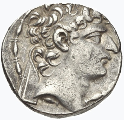 Copied from the website: "212, Lot: 121. Estimate $150. Sold for $242. This amount does not include the buyer’s fee. SELEUKID KINGS of SYRIA. Seleukos VI Epiphanes Nikator. Circa 96-94 BC. AR Tetradrachm (27mm, 16.05 g, 1h). Antioch mint. Diademed head right / Zeus Nikephoros seated left, holding lotus-tipped scepter; A/N/A to outer left, monogram under throne; all within wreath. SC 2415e. VF, toned, obverse a bit off center."